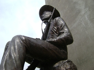 Bronze sculpture of Commander Lucio Cabañas Barrientos, creator of Poor People Party and fighter against goverment in 60´s decade